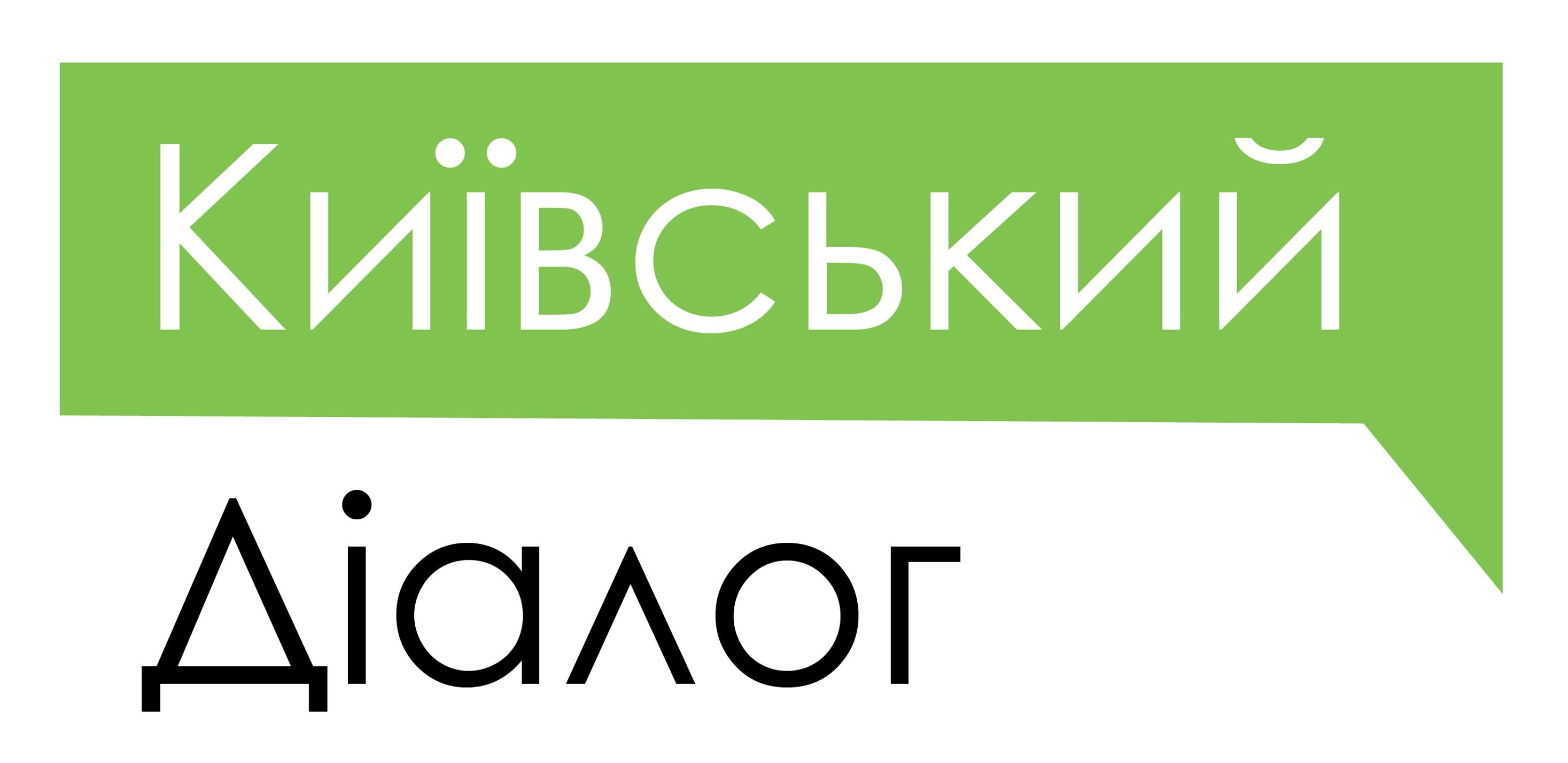 New logo of Kyiv Dialogue project